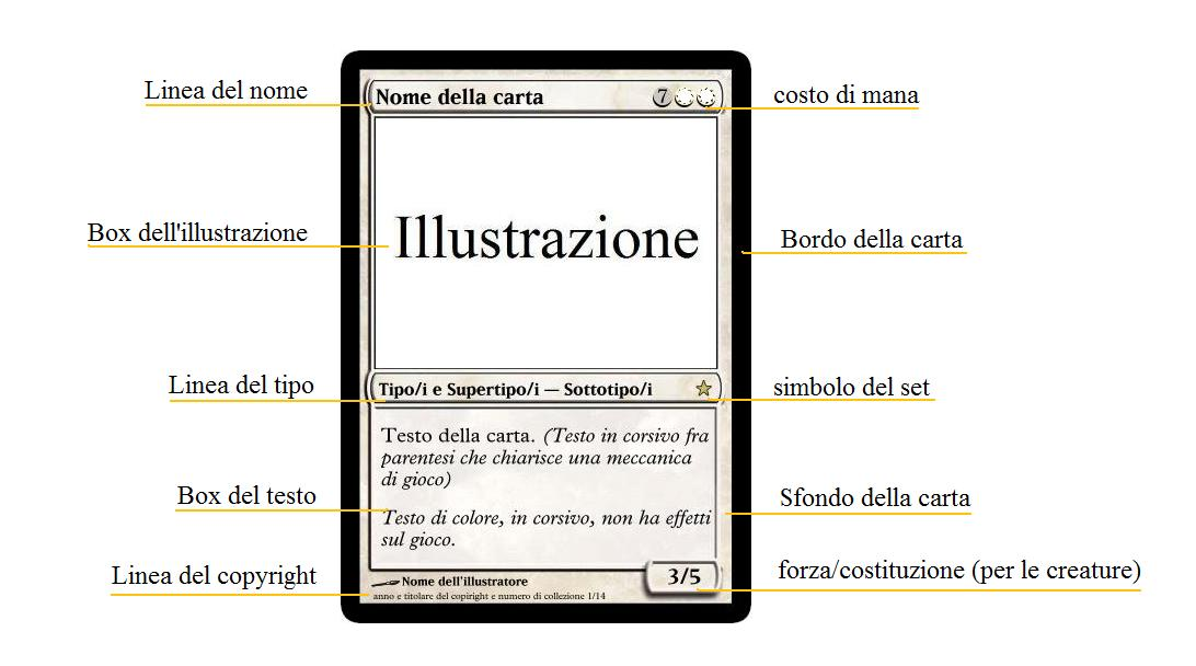 Parts of a Magic: the Gathering card in italian.